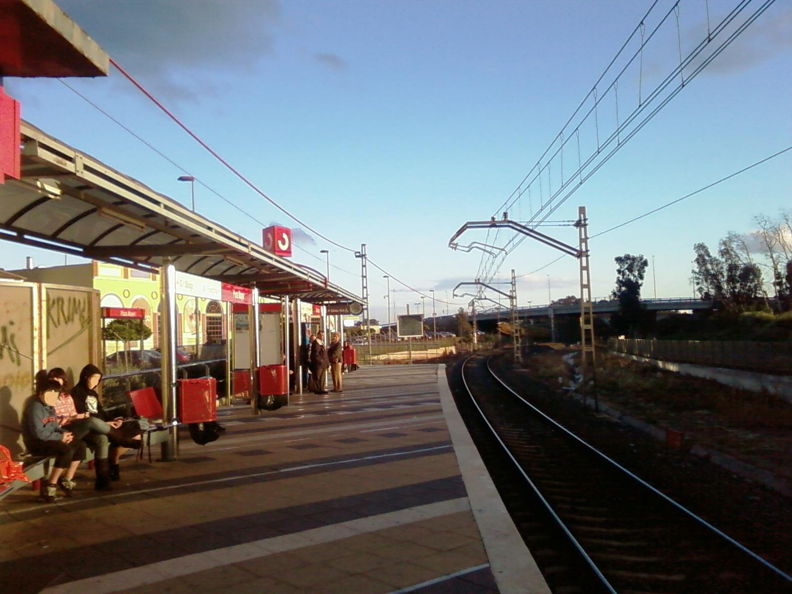 Plaza Mayor train station, C1 line Cercanías Málaga, Spain